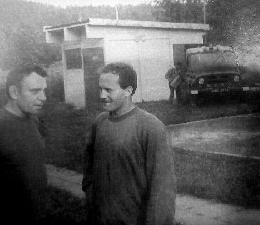 WOP post in Zawoja